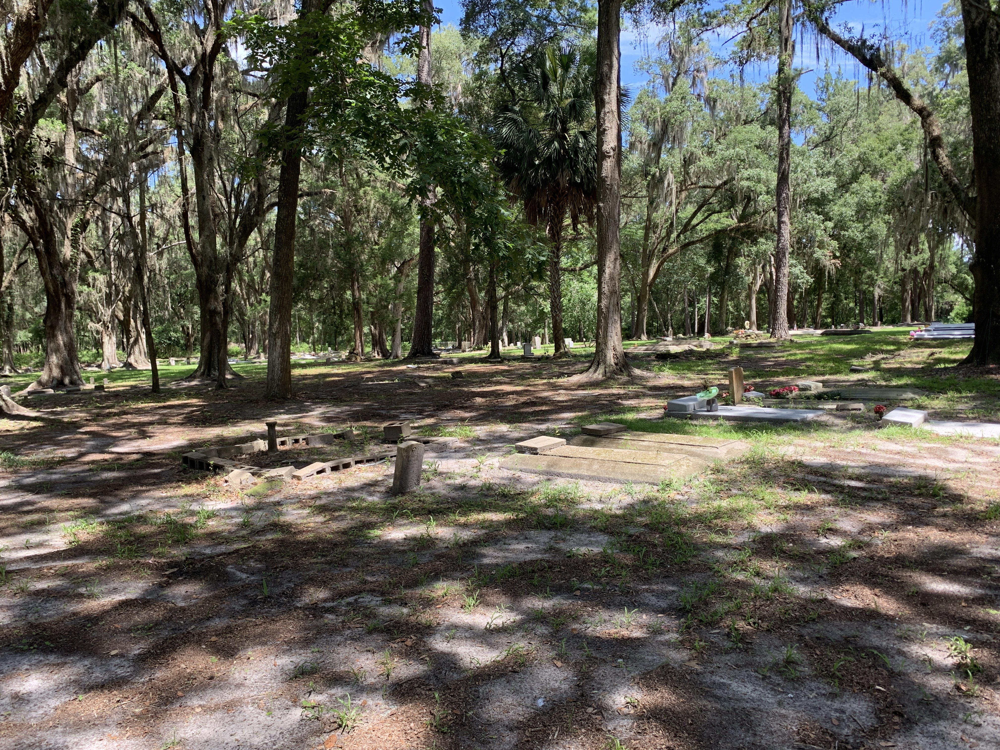 Cemetery, Pleasant Plain United Methodists Church, Jonesville, Florida